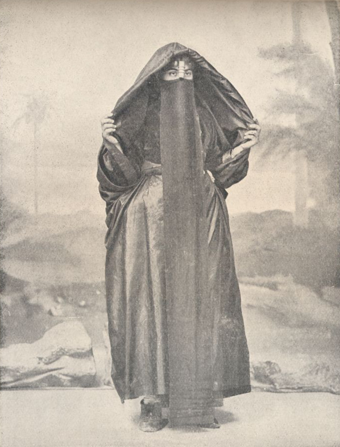 A woman in black robes, wearing a floor length veil. Black- and- white photograph.